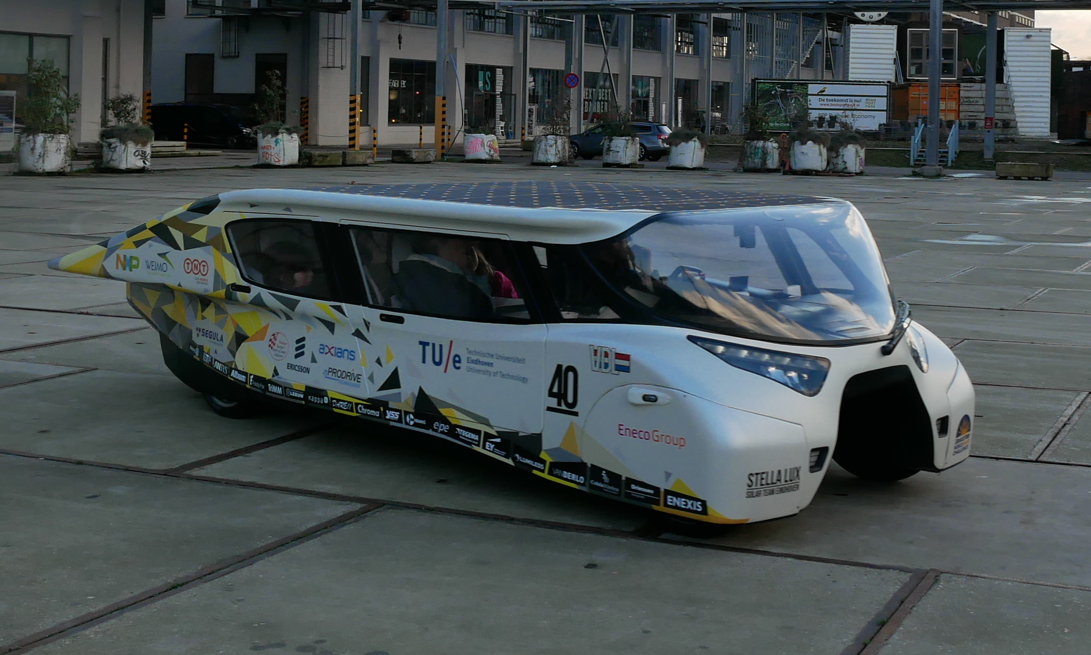 This is Stella Lux, a solar-powered family car built by Solar Team Eindhoven, a student team from the Eindhoven University of Technology.